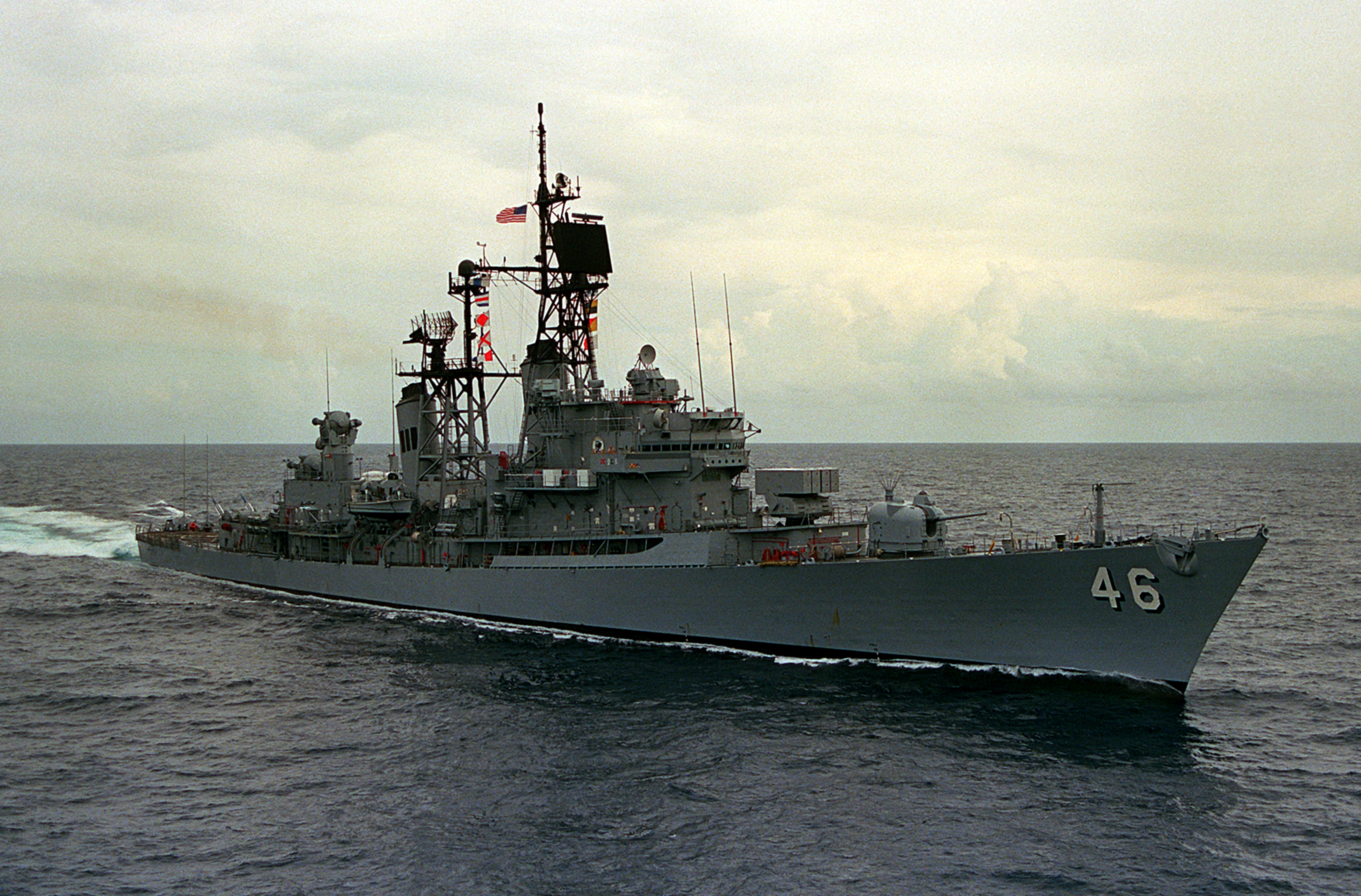 The U.S. Navy guided missile destroyer USS Preble (DDG-46) underway in the Pacific Ocean on 1 April 1986.